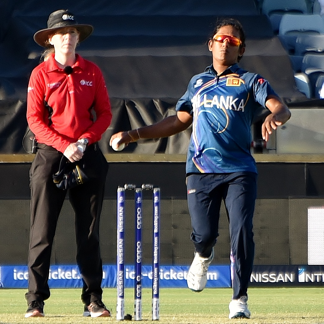 Chamari Atapattu bowling for Sri Lanka against Australia during their 2020 ICC Women's T20 World Cup match at the WACA Ground in Perth, Australia